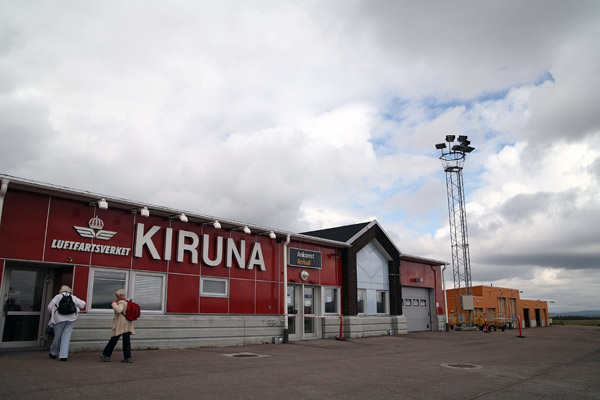 Kiruna airport, Sweden, Kiruna.